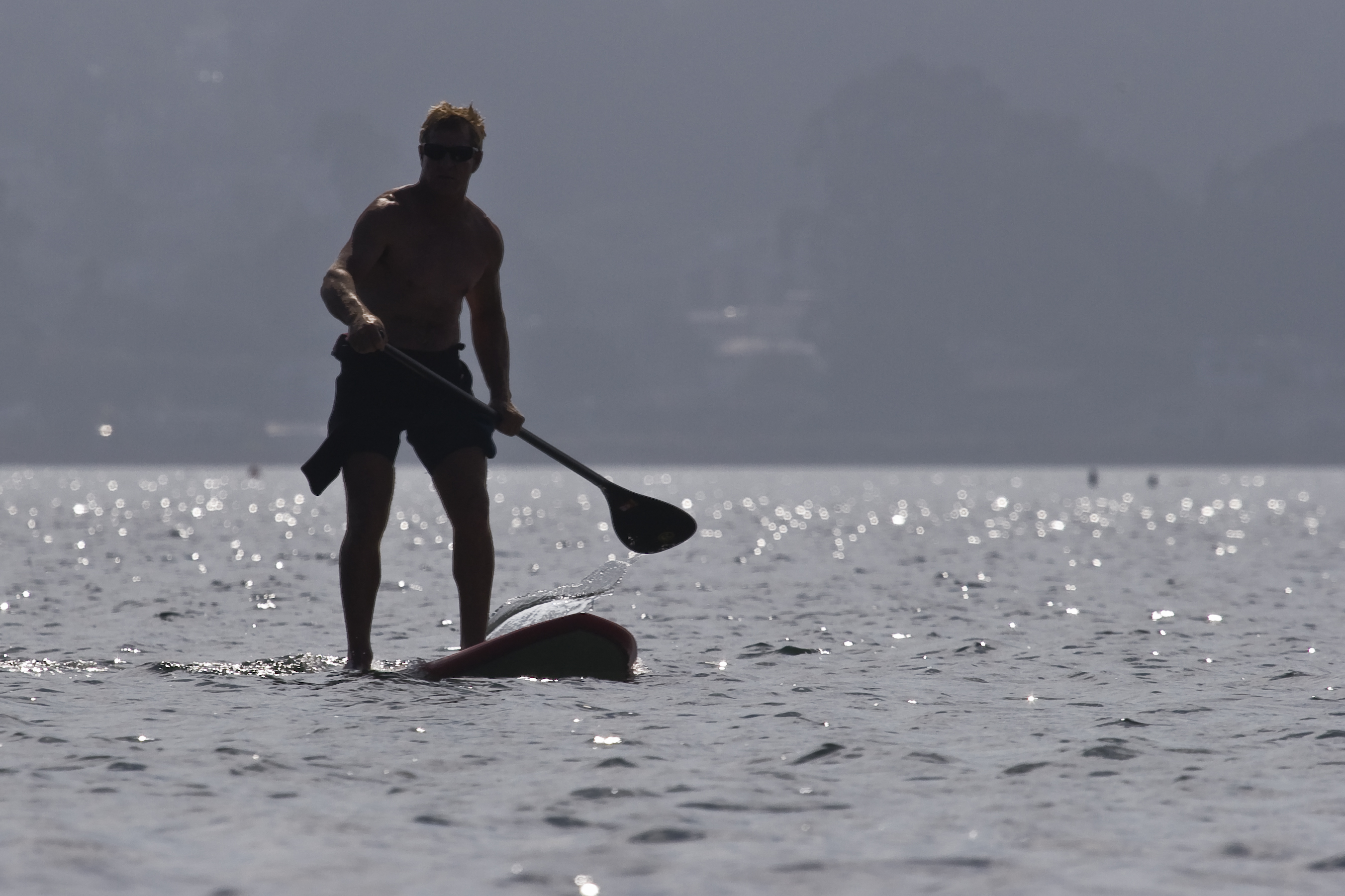 "Young male man paddle surfer seen during a kayak outing (...) in the Morro Bay, CA Morro Bay Estuary, Sunday Oct. 28 2007 28oct2007. Photo by Mike Baird, Canon 20D with 100-400mm IS lens handheld" (from original description on flickr)